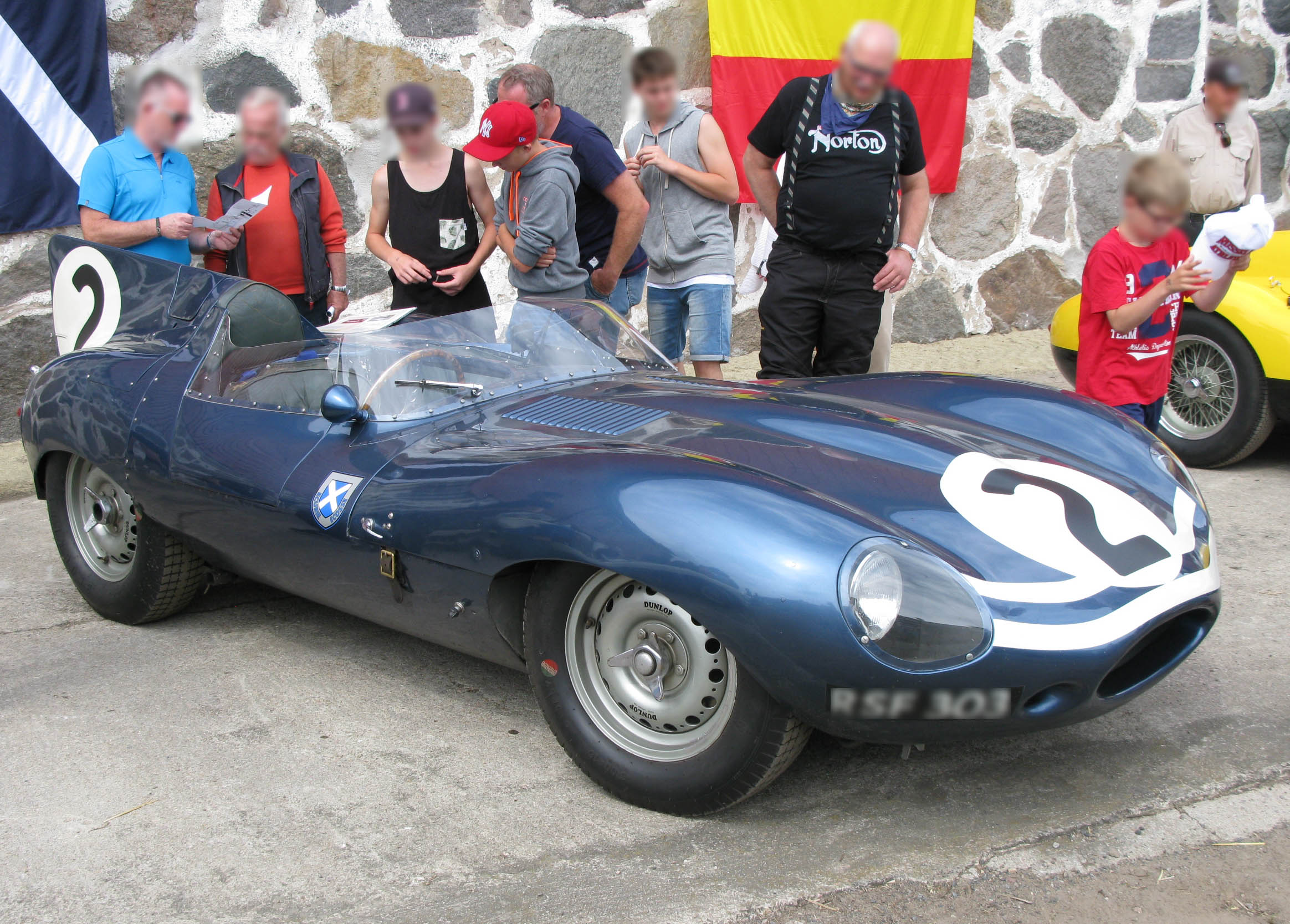 A 1957 Jaguar D-type (owned by Beecham since 2014). Here, we see Scottish drivers Ninian Sanderson and Jack Fairman finished 9th in Sportscar Class 1 +2000cc in this car at Swedish Grand Prix in 1957.Event: 60 year anniversary of the Swedish Grand Prix in Kristianstad.